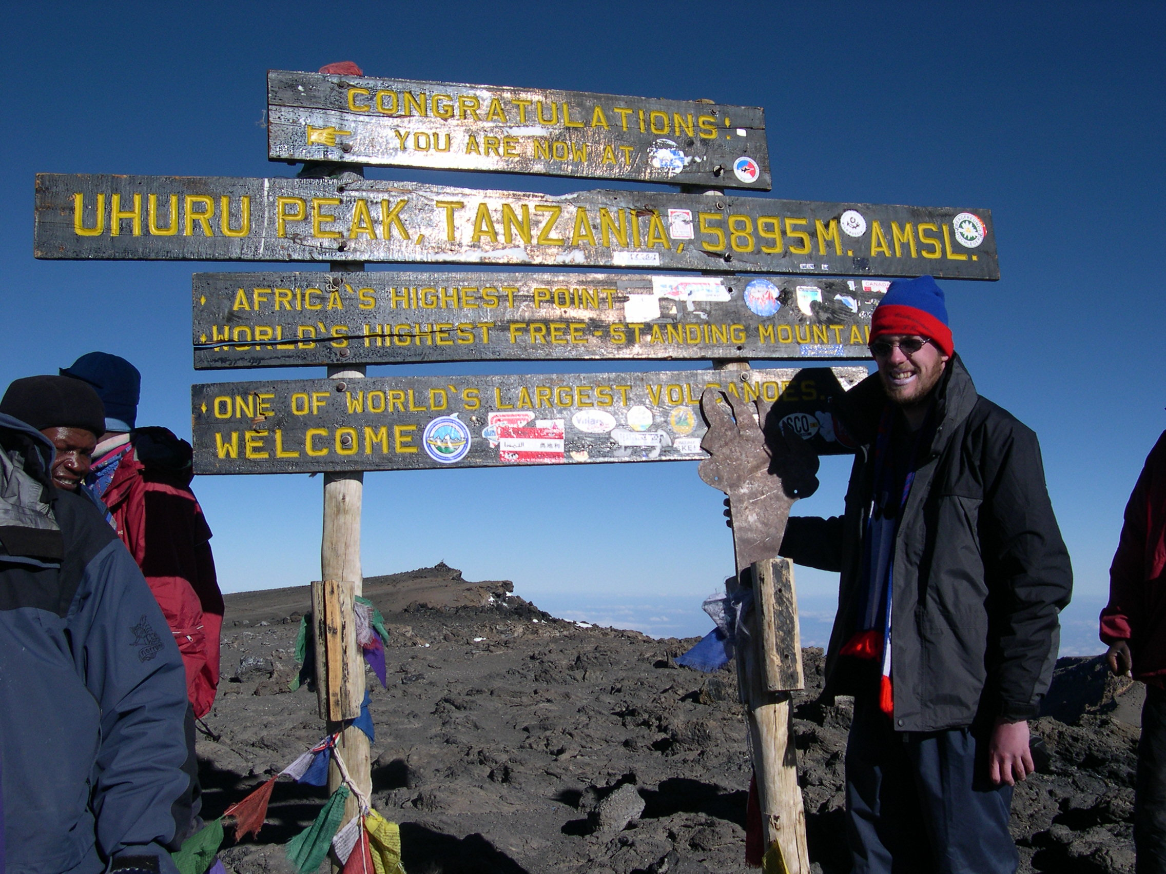 Peter Kinloch at the summit of Mount Kilimanjaro on 10th March 2005.